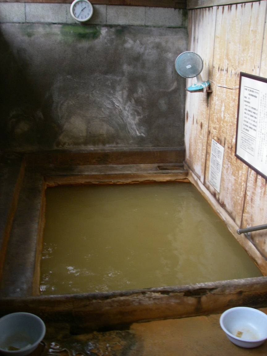 Chihara onsen hotspring. The hot water springs up from the bottom in the bathtub.